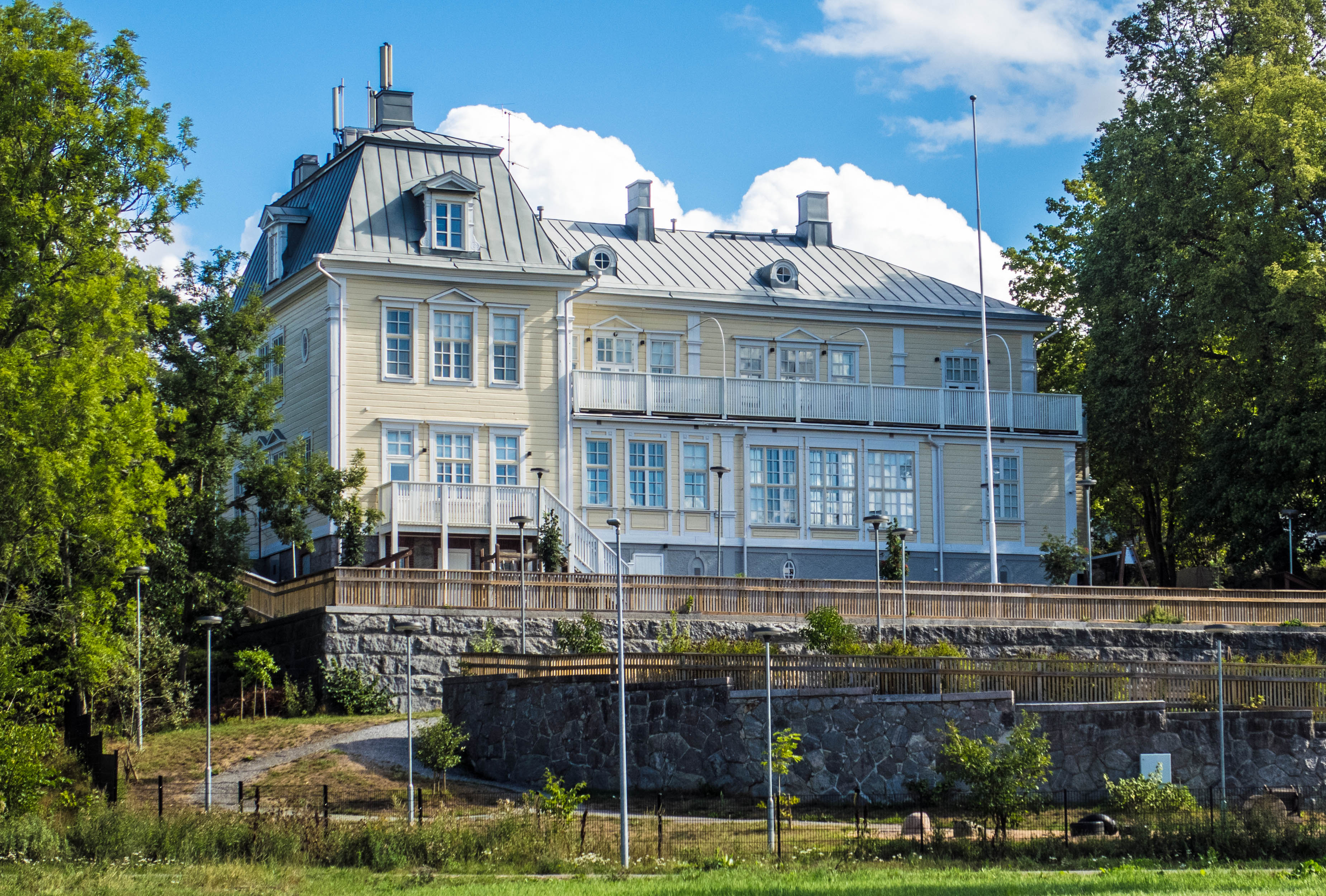 The main building of Ispoinen manor, completed in 1784, expanded and renovated in 1915, 1988, and 2015. Was an old people's home from the late 1950s until 2012. Since 2015 housing a private kindergarten Vilske.